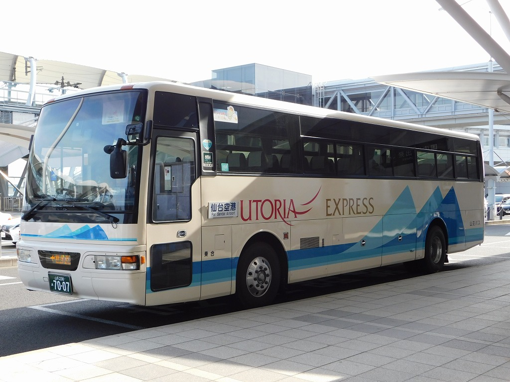 Yamako bus Nissan Diesel Space Arrow (KC-RA531RBN),highwaybus Yamagata stn. - Sendai airport